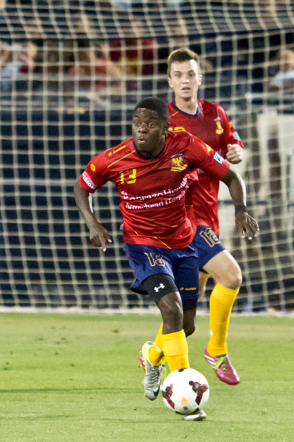 Kadeem Dacres - Arizona United SC